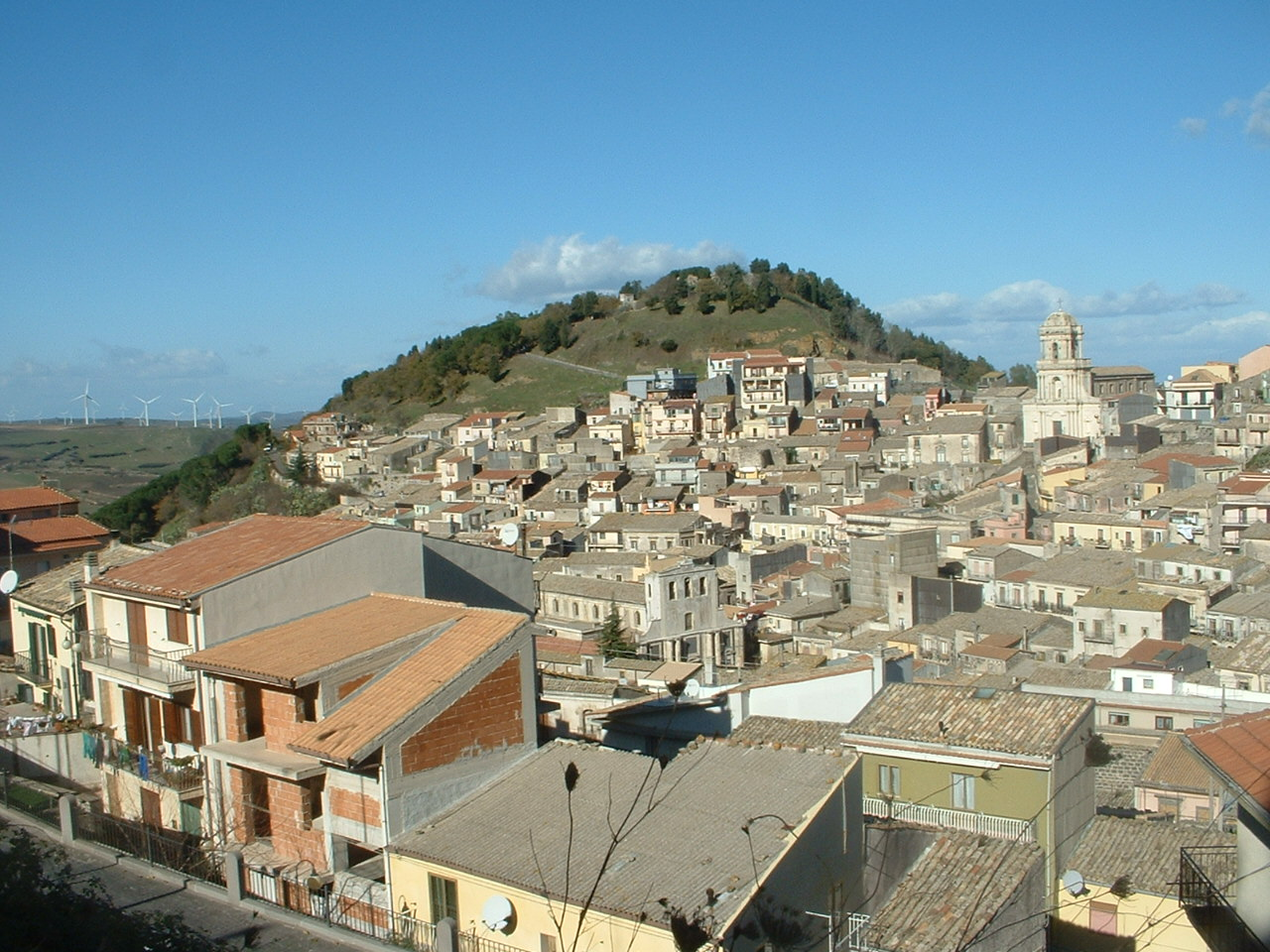 View of Buccheri (SR)